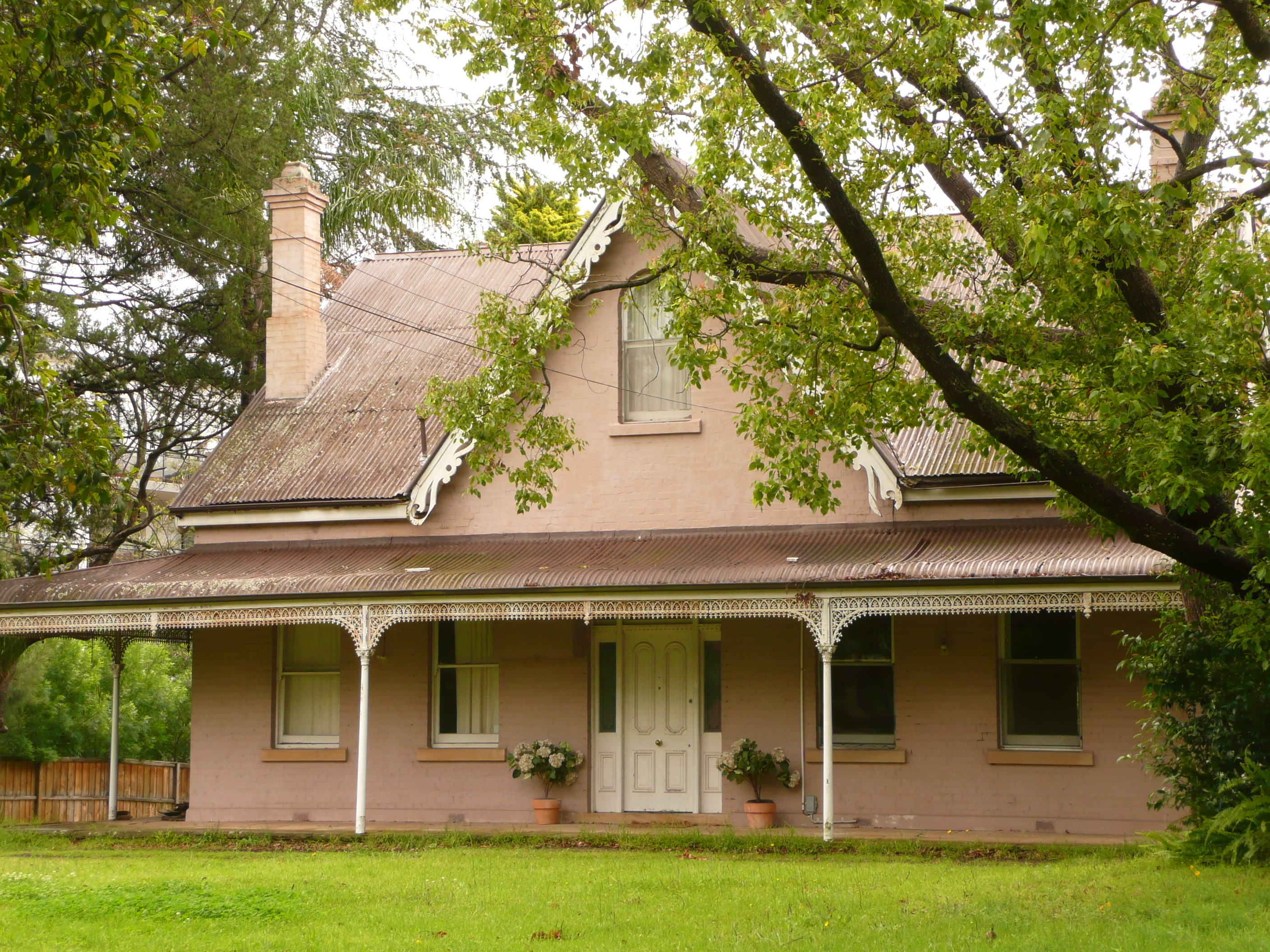 Benaara Gardens, Castle Hill, Sydney